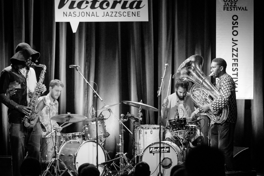 Sons of Kemet at Victoria Teater. The concert was part of Oslo Jazzfestival and took place on 12. August 2018 in Oslo. Lineup: Tom Skinner (drums) Eddie Hick (drums) Theon Cross (tuba) Shabaka Hutchings (saxophone)